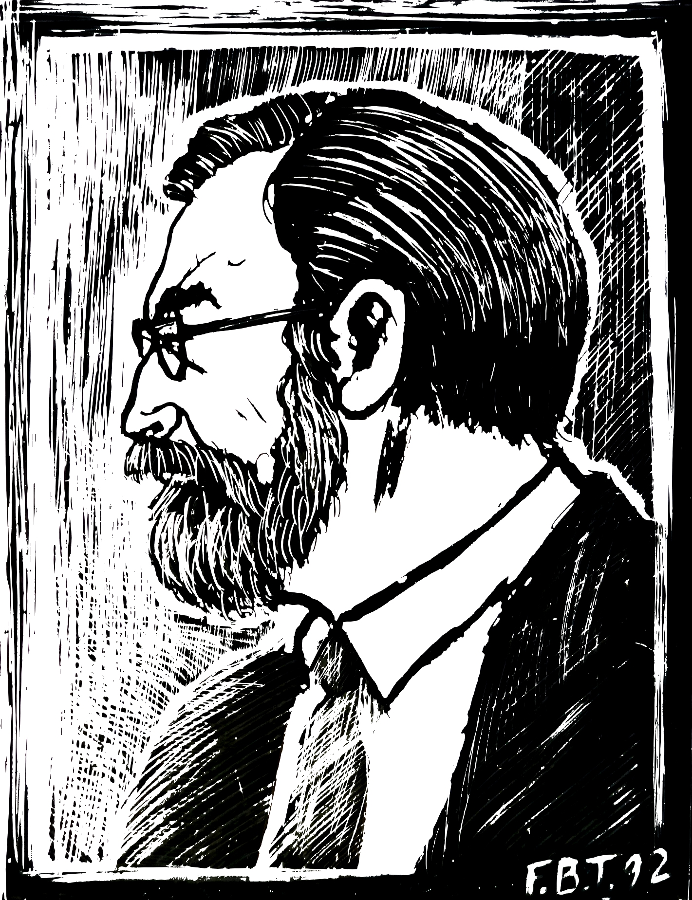 Portrait of the colombian historian Gustavo Vargas Martínez. Draw byFabio Barrera T. october, 1992.